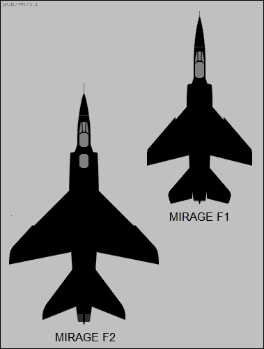 Plan-view silhouettes of the Dassault Mirage F1, and Dassault Mirage F2